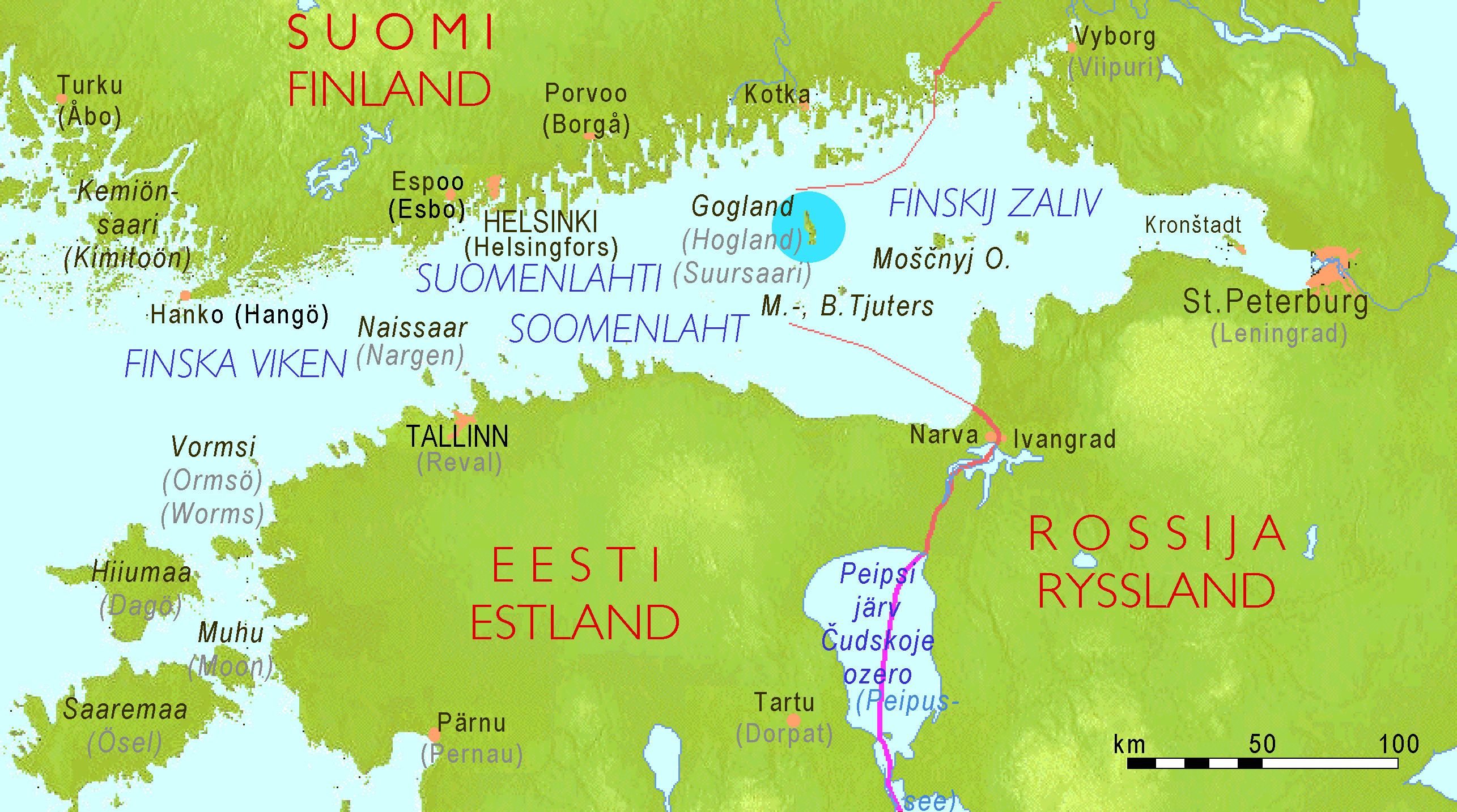 The Island of Gogland/Hogland/Suursaari in the Gulf of Finland